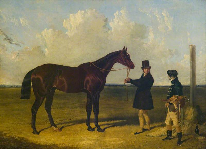 'Mango', Winner of the St Leger, 1837 by John Frederick Herring (1795-1865). Artist dead for 147 years.